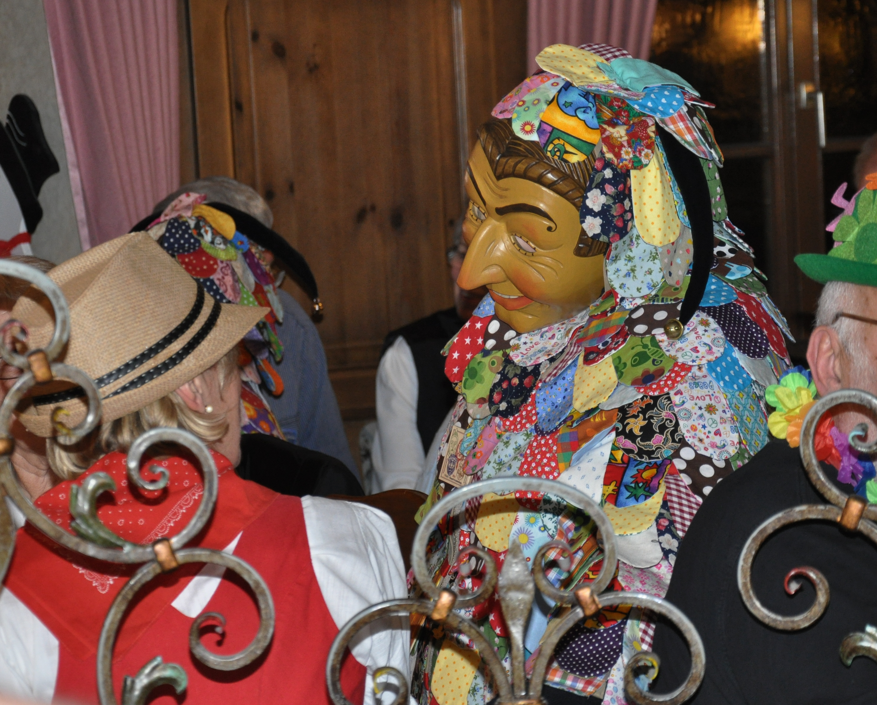 Gengenbach, Germany, carnival („Fasend“) 2014, a local „Spättlehansel“ talks to patrons of the Gasthaus Sonne restaurant.